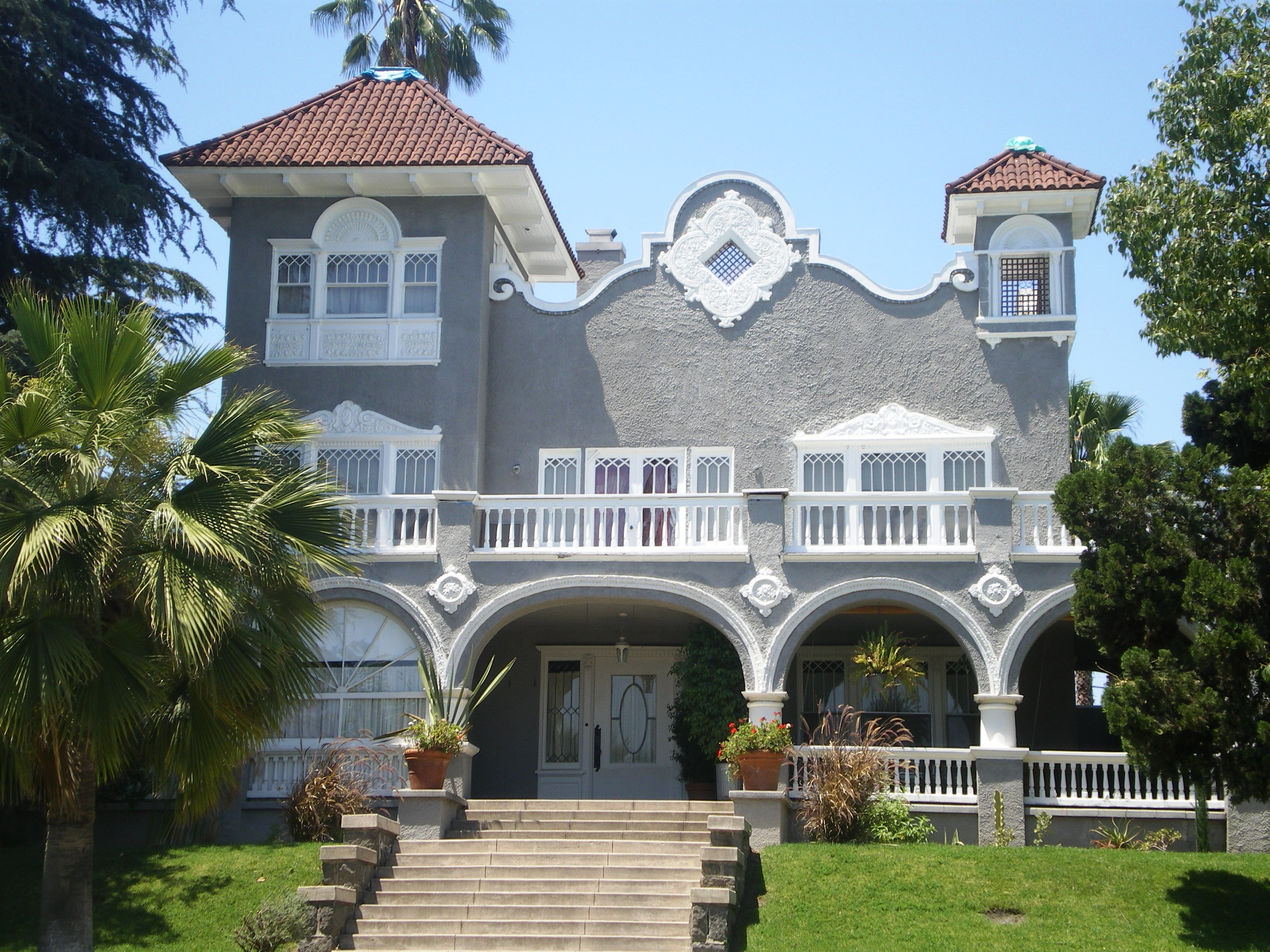 Powers House — at 1333 Alvarado Terrace, Category:Pico-Union district, Los Angeles, California. The 1903 Mission Revival Style Los Angeles Historic-Cultural Monument, and a Historic district contributing property in the Alvarado Terrace Historic District.